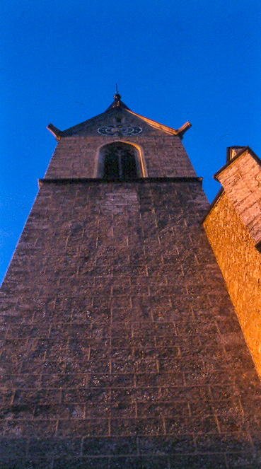 Pfarrkirche St. Valentin: Parish church Saint Valentin (Austria), built in 1476 by Wolfgang Tenc, church tower raised in 1887.